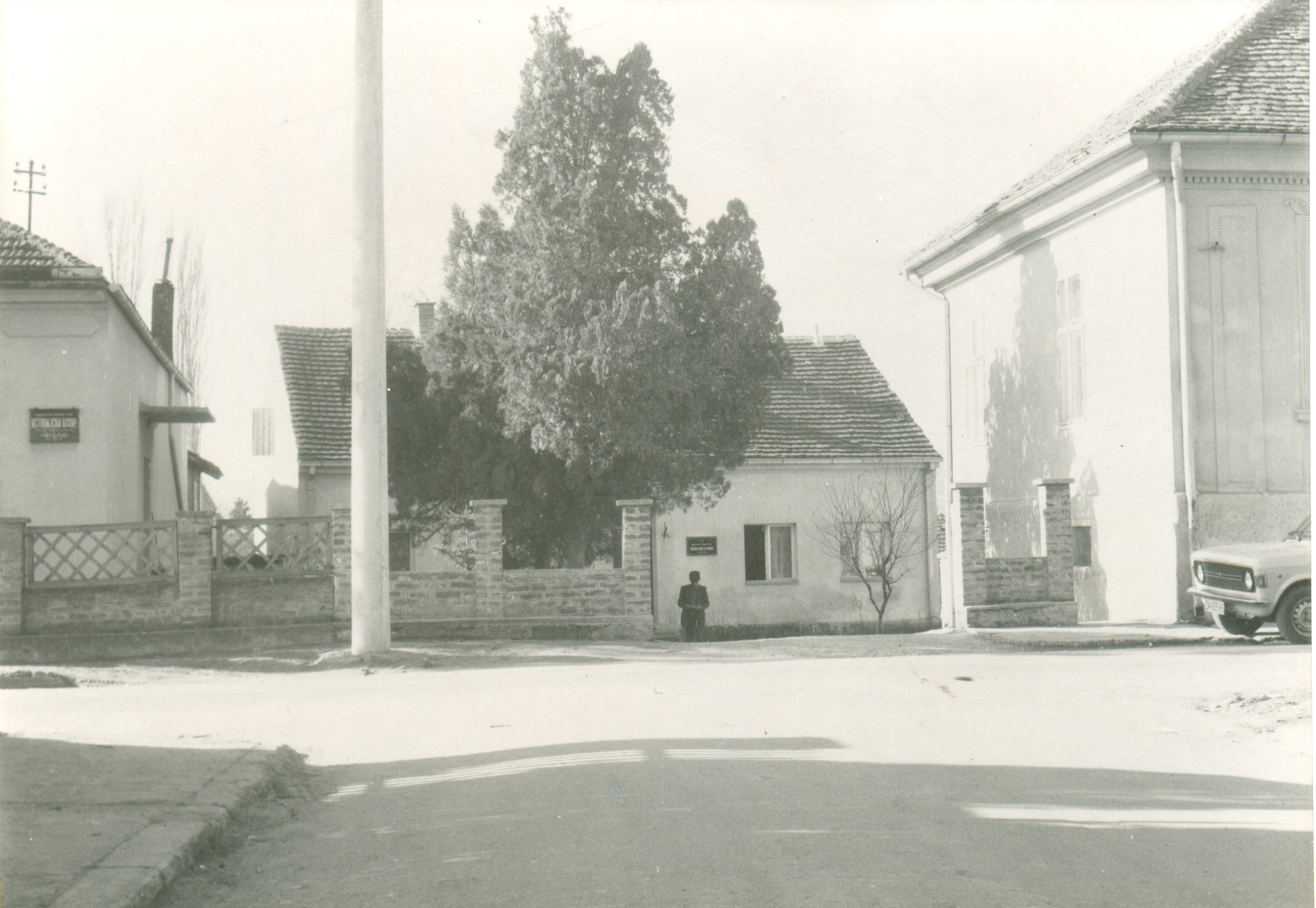 Historical Archive of Negotin in 1970s Srpski (latinica): Istorijski arhiv u Negotinu, sedamdesetih godina (1)